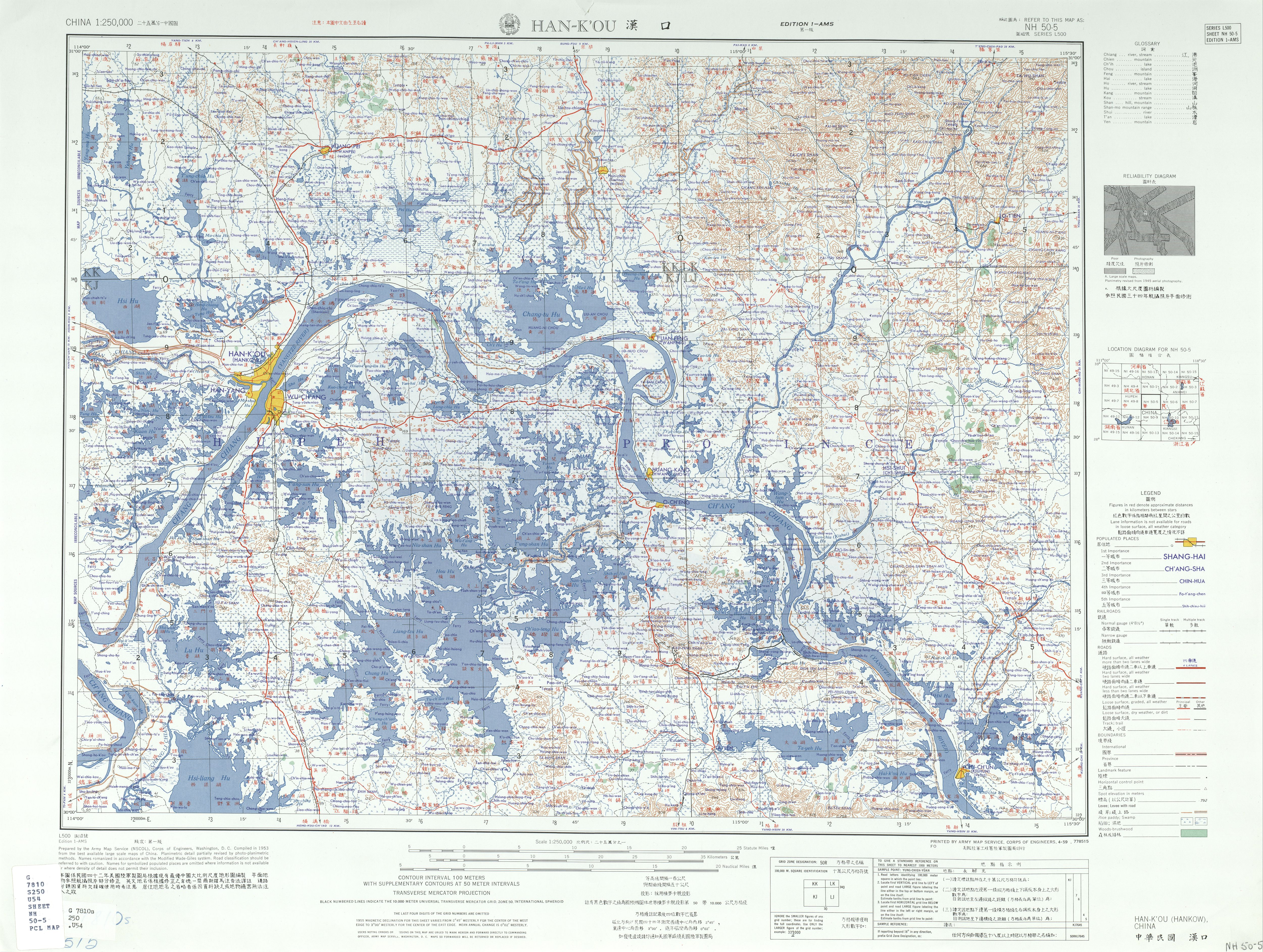 Map of the Hankou (Han-k'ou, Hankow) area, Hubei